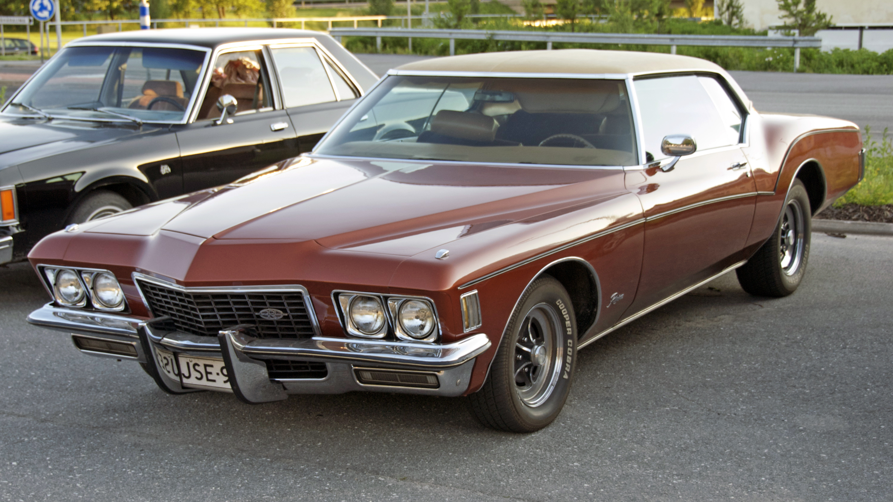 1972 Buick Riviera in Finland